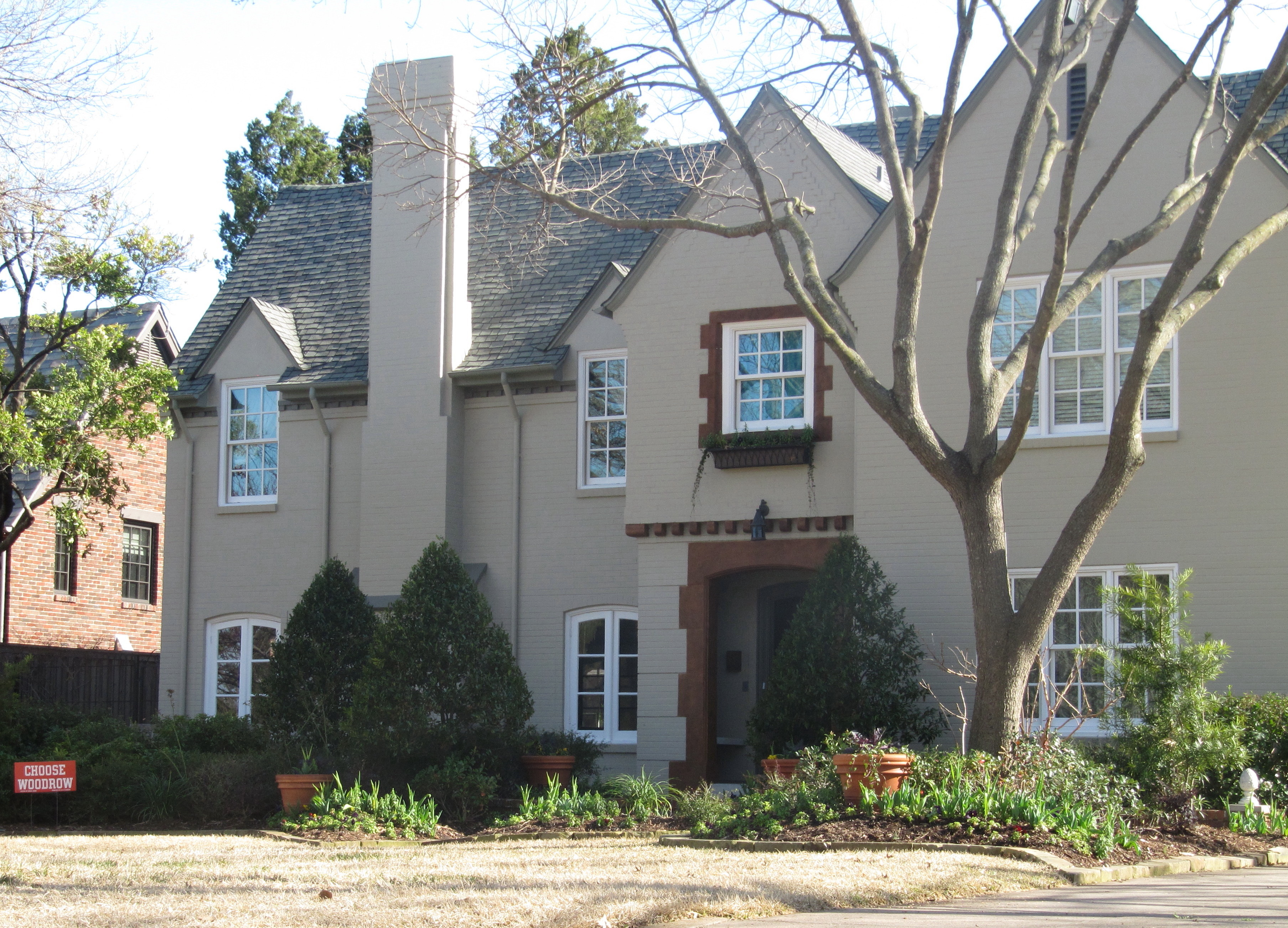 Lakewood Boulevard boasts many 1920s and 30s mansions and estates. This is the former home of "The Mayor of Lakewood" Jim Young.